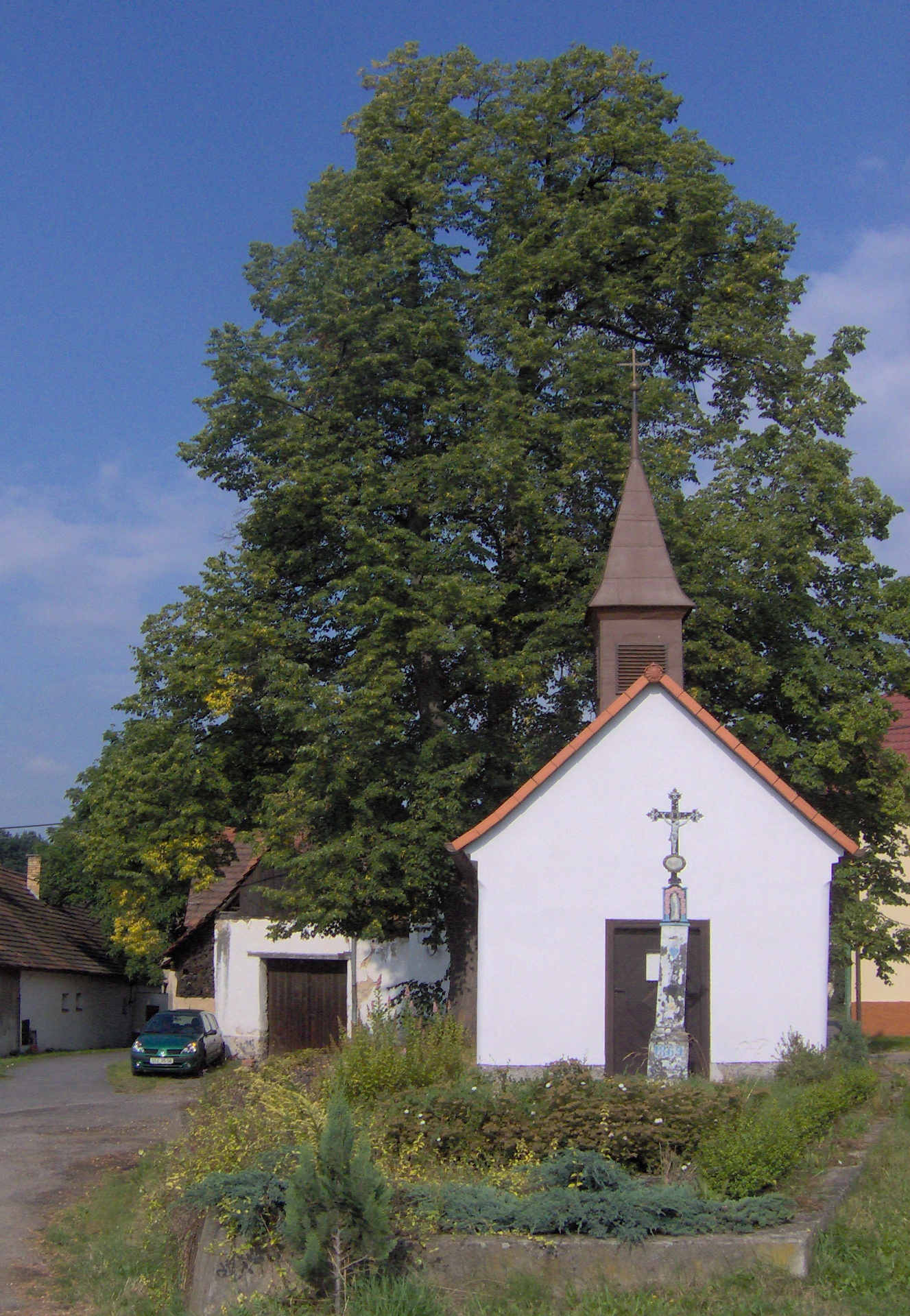 Chapel in Radějovice, Strakonice District, Czech Republic